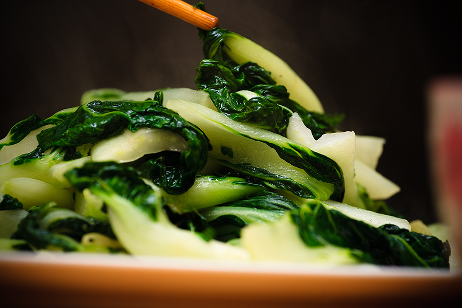 A plate of cooked bok choy